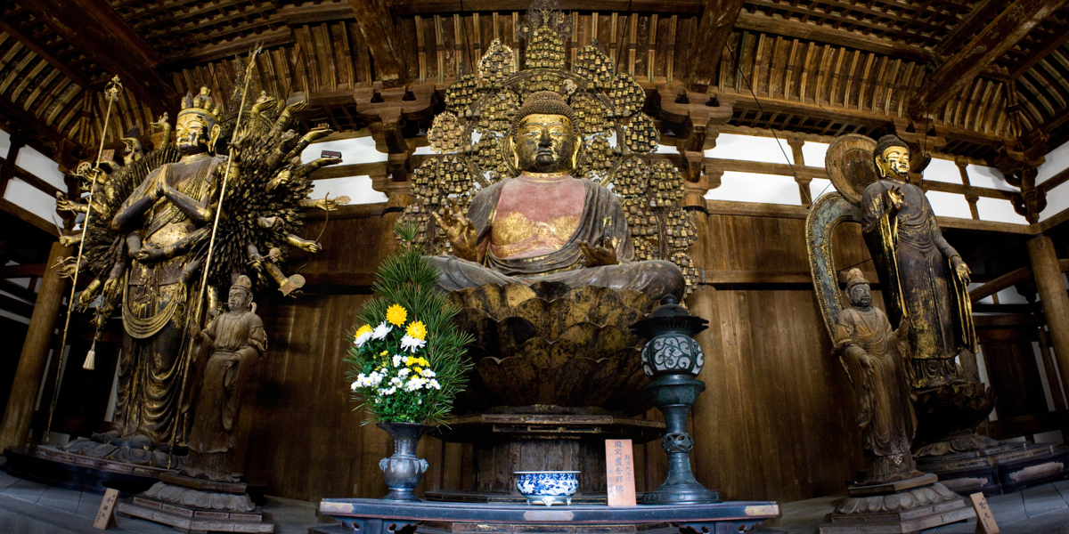 Statues of Avalokiteshvara, Shakyamuni and Gautama Buddhas in one of Tōdai-ji temple complex halls. Nara, Nara Prefecture, Kansai Region, Japan